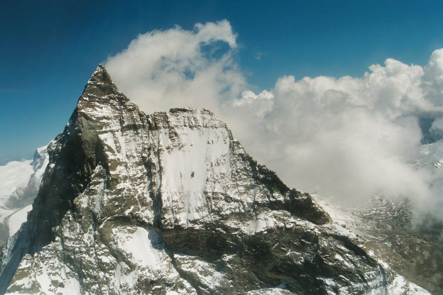 The west face of the Matterhorn